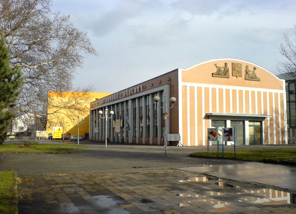 Černá louka Exhibition Centre, Ostrava.